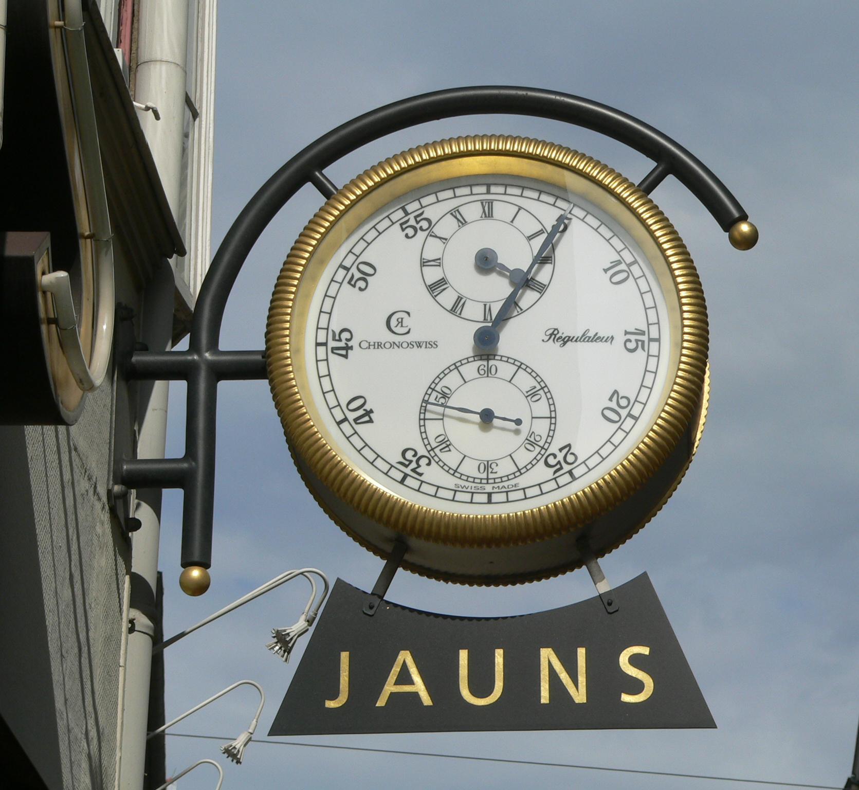 Clock bracket and suspended clock on a jewellery shop, shop sign in Braunschweig, Germany